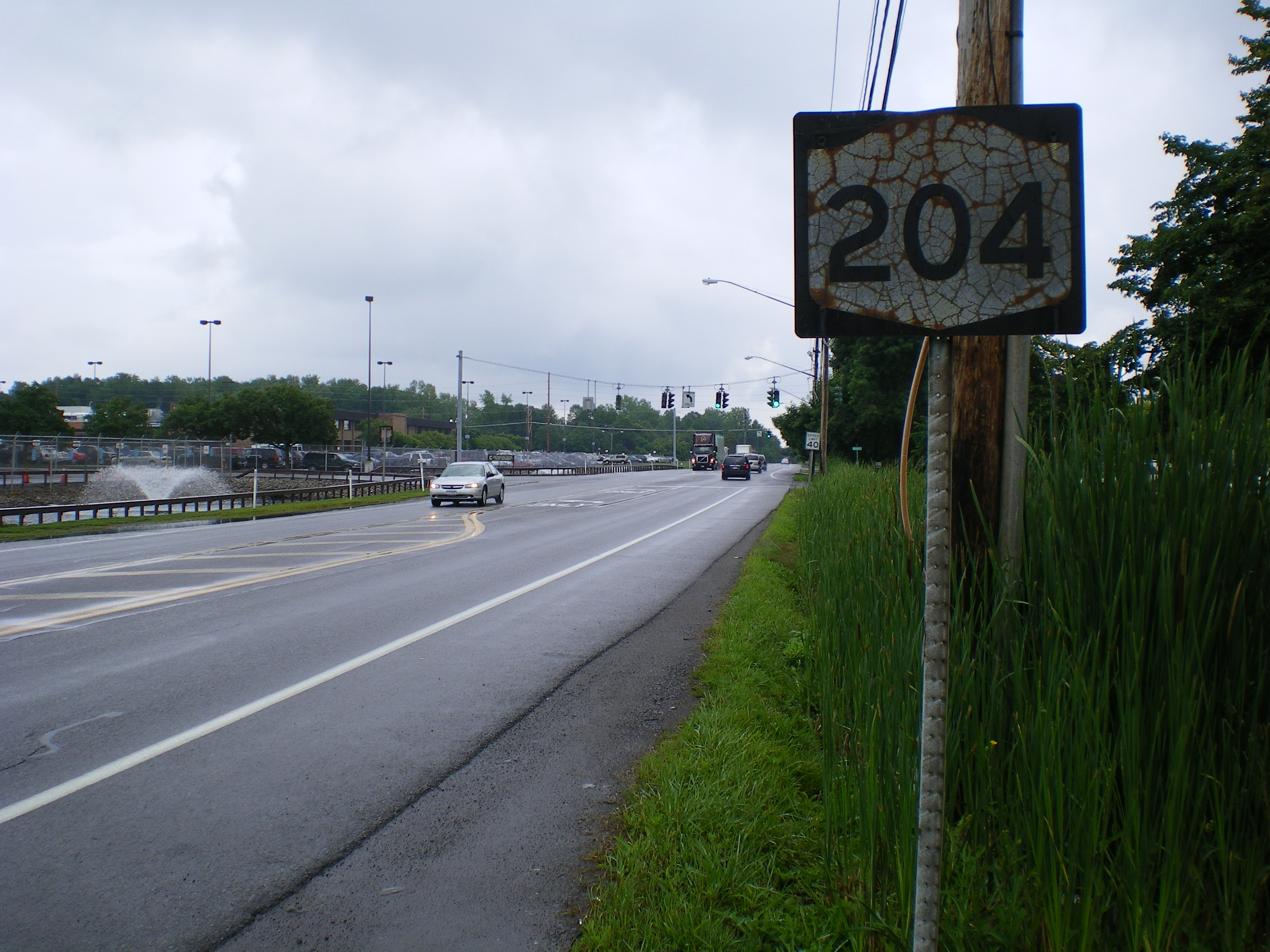 Old, cracked shield on New York State Route 204 eastbound in Gates.